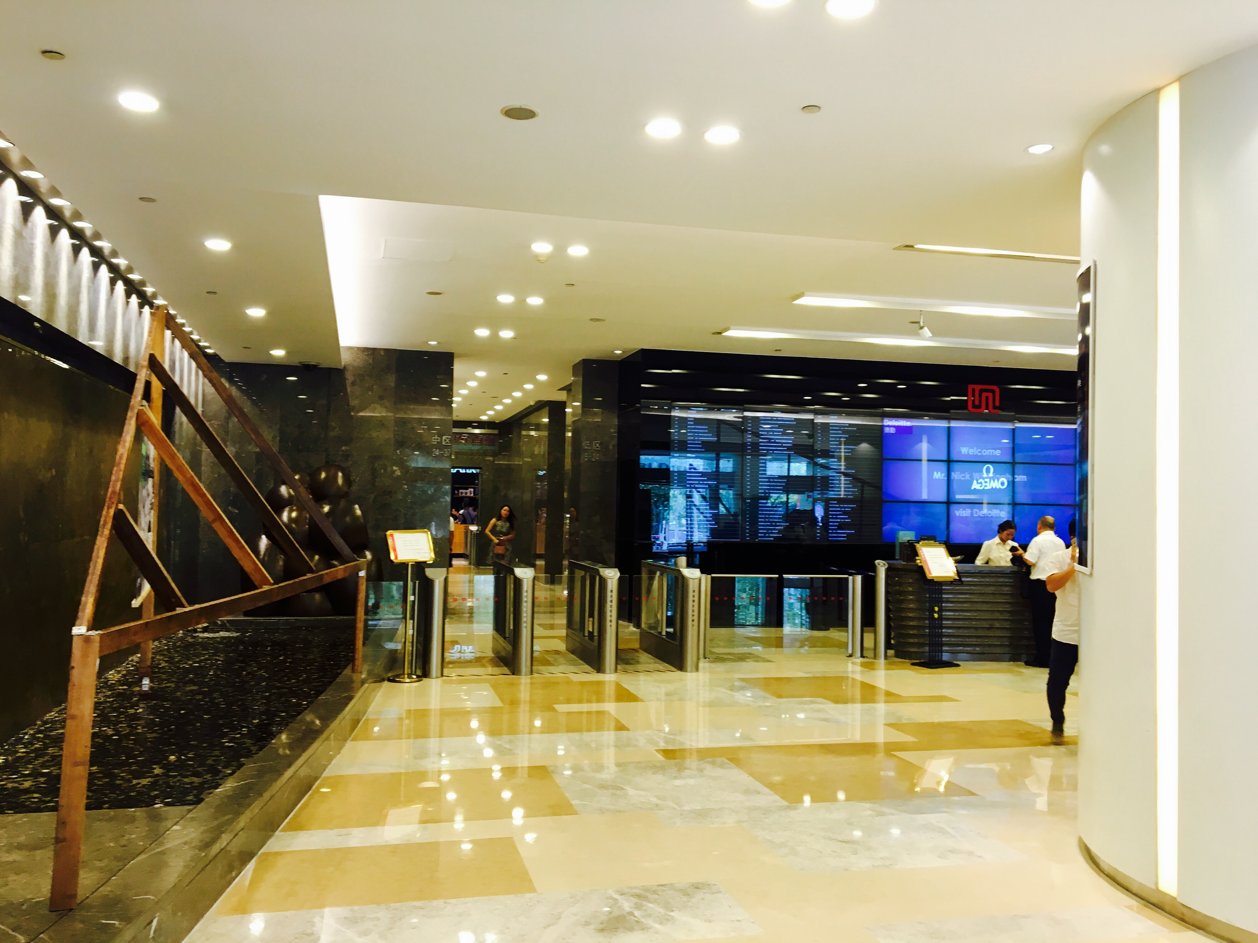 Lobby of Wuhan New World International Trade Tower